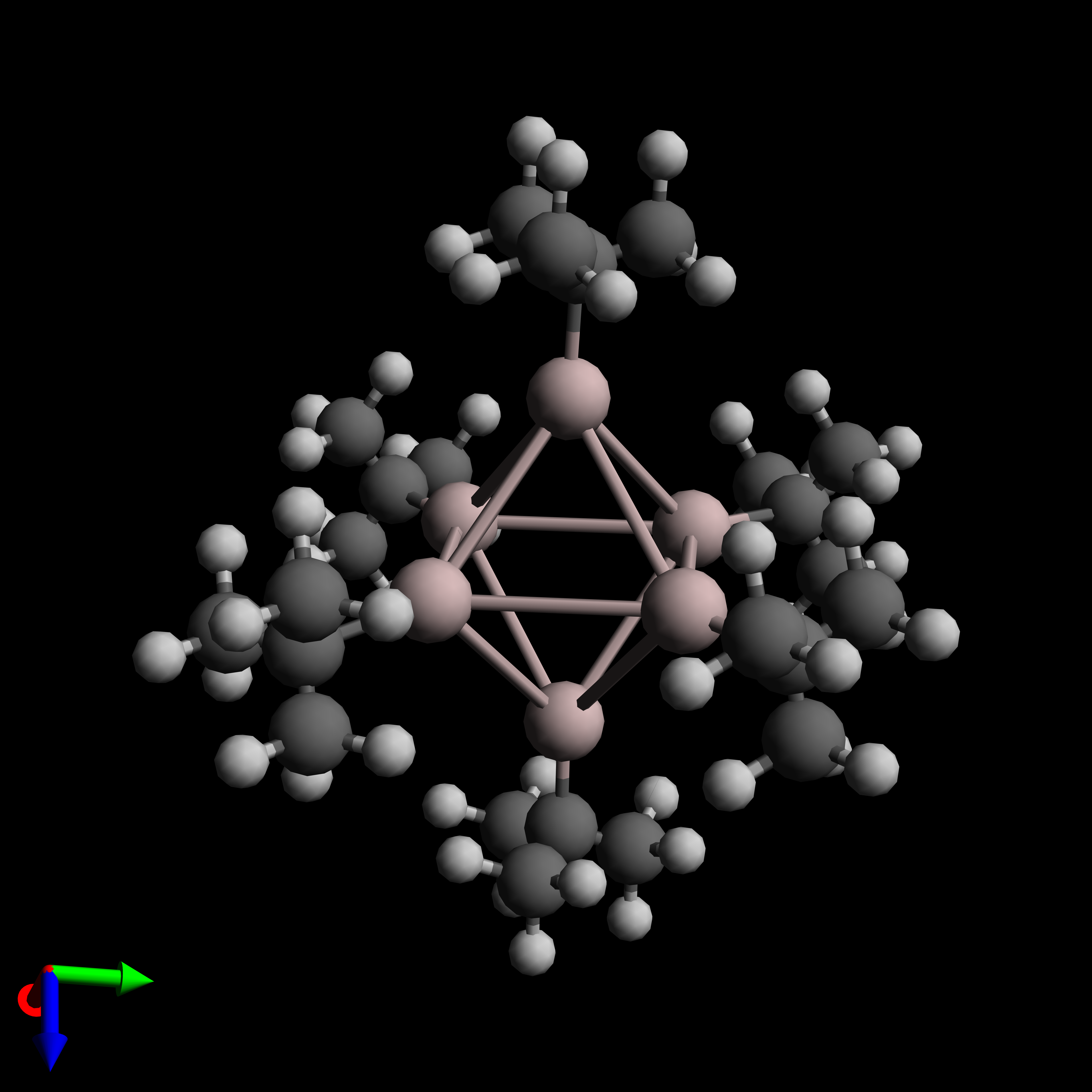 aluminium octahedral with t-bu